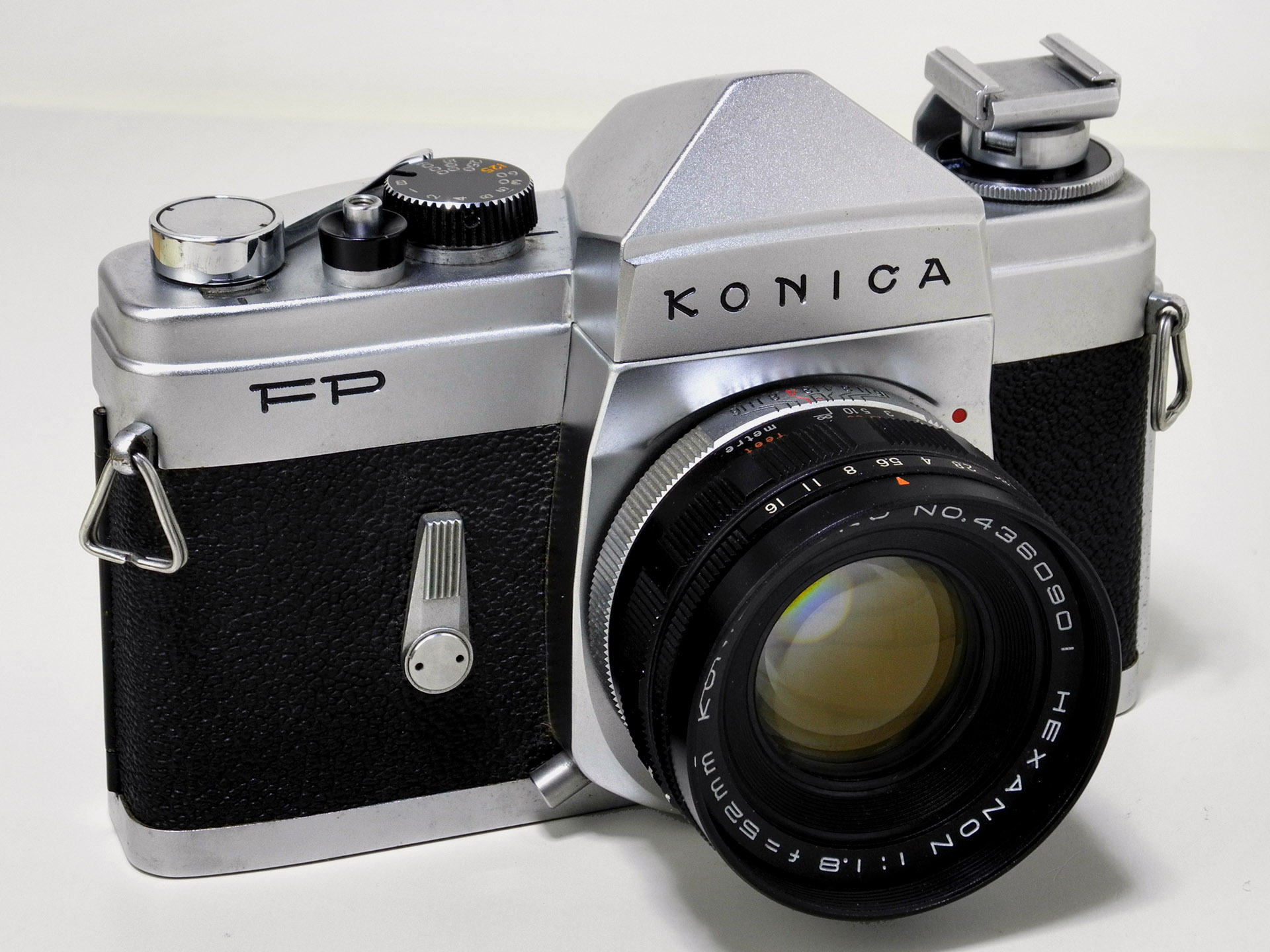 Konica FP w/hexanon 52mm f/1.8